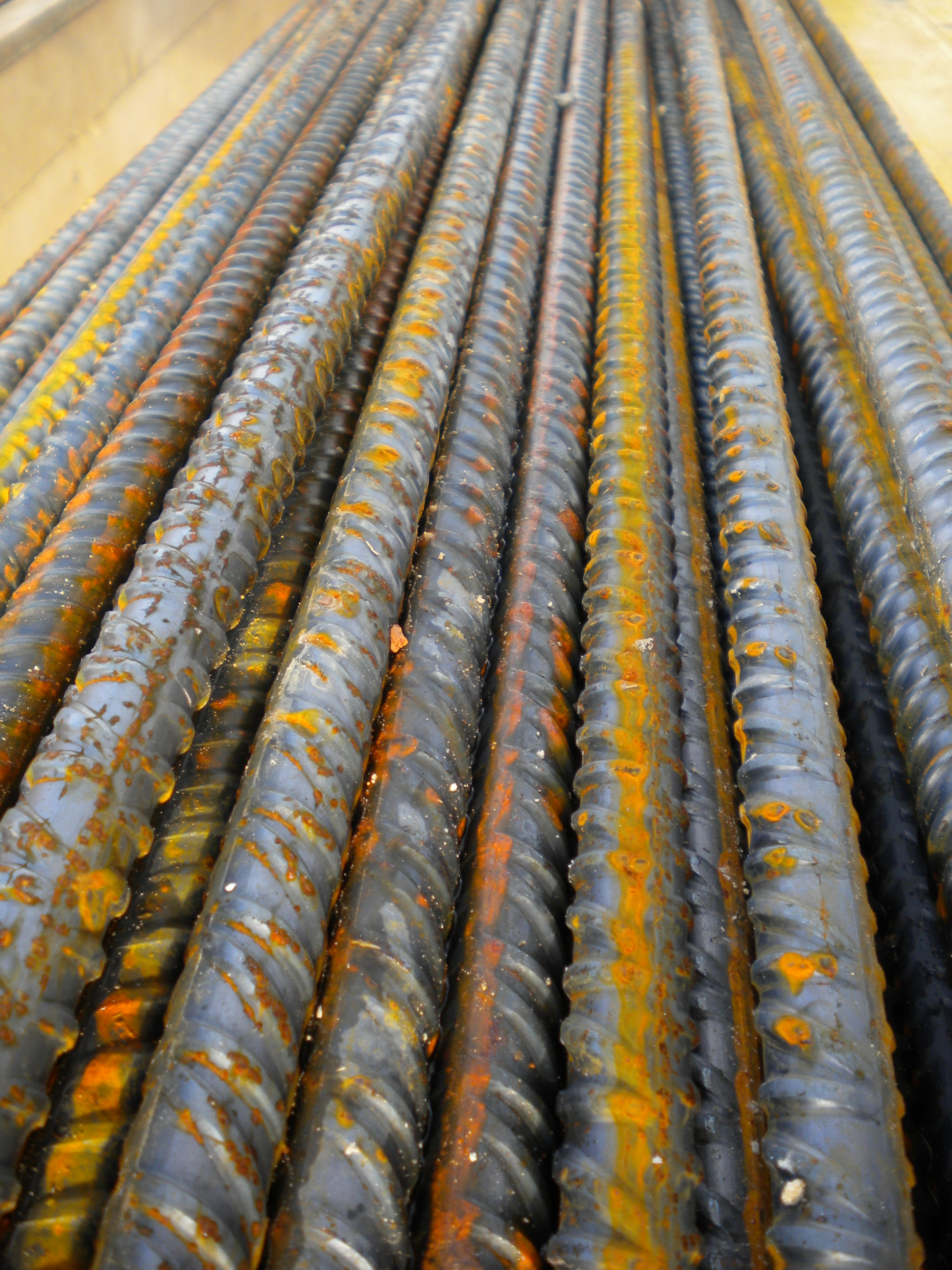 Sheaf of Ø 16 steel rebars